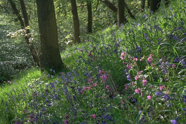 Bluebells and Red Campion, Newton Woods